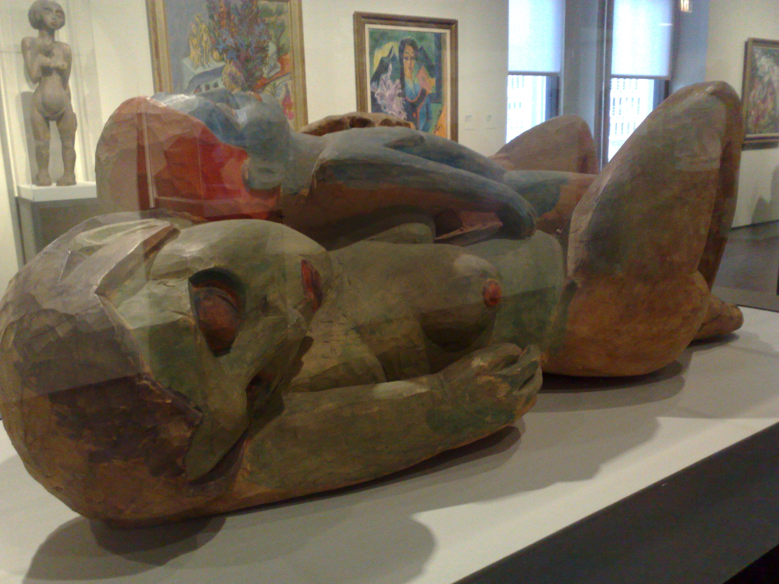 Hermann A. Scherer (Germany, Rümmingen, 1893 - 1927) Sleeping Woman with Boy, 1926 Sculpture, Painted wood, 19 1/2 x 53 5/16 x 21 1/2 in. (49.53 x 135.26 x 54.61 cm) Gift of Anna Bing Arnold (M.84.30) Wikipedia Loves Art at the Los Angeles County Museum of Art This photo of item # M.84.30 at the Los Angeles County Museum of Art was contributed under the team name "yokim" as part of the Wikipedia Loves Art project in February 2009. Los Angeles County Museum of Art The original photograph on Flickr was taken by yonghokim—please add a comment to the original Flickr page whenever a use has been made on Wikipedia or another project. Project galleries on Flickr: this institution, this team